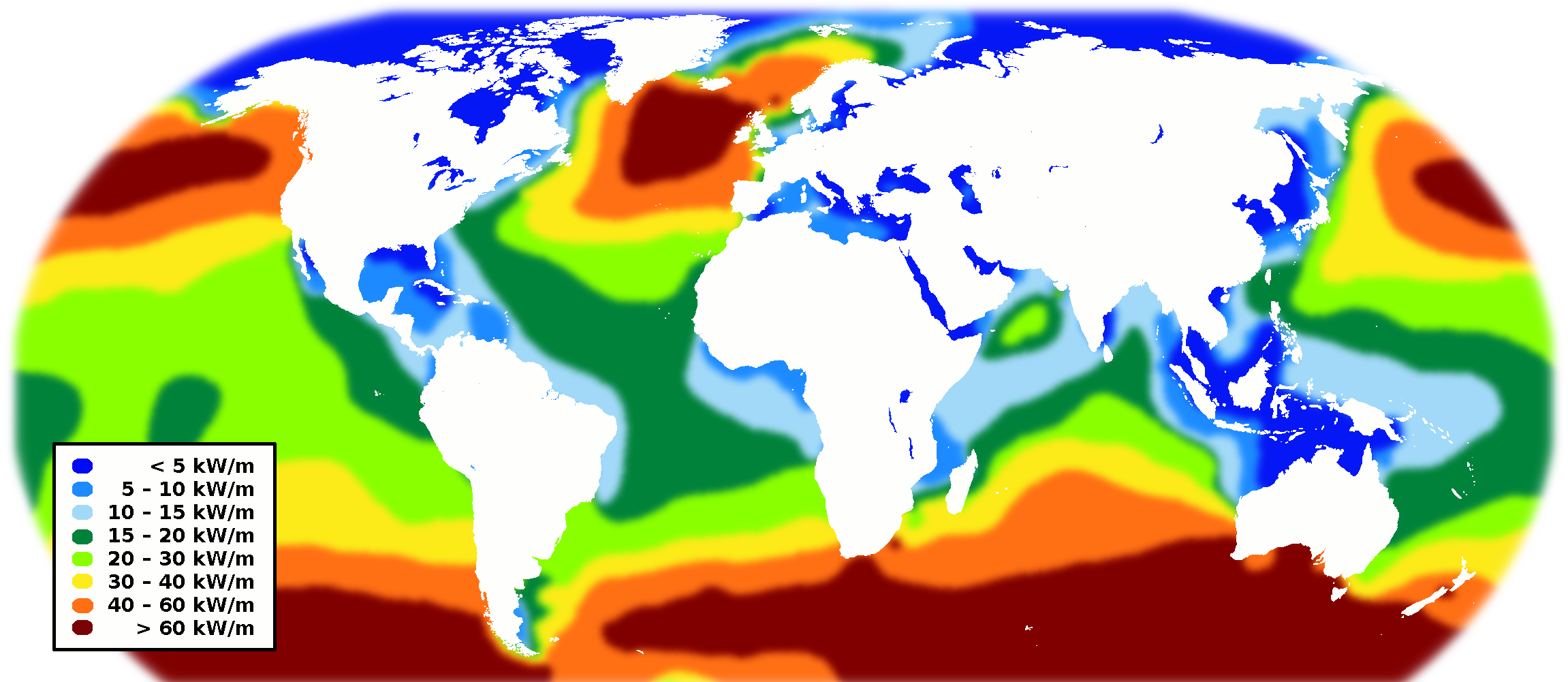 World map showing wave energy flux in kW per meter wave front